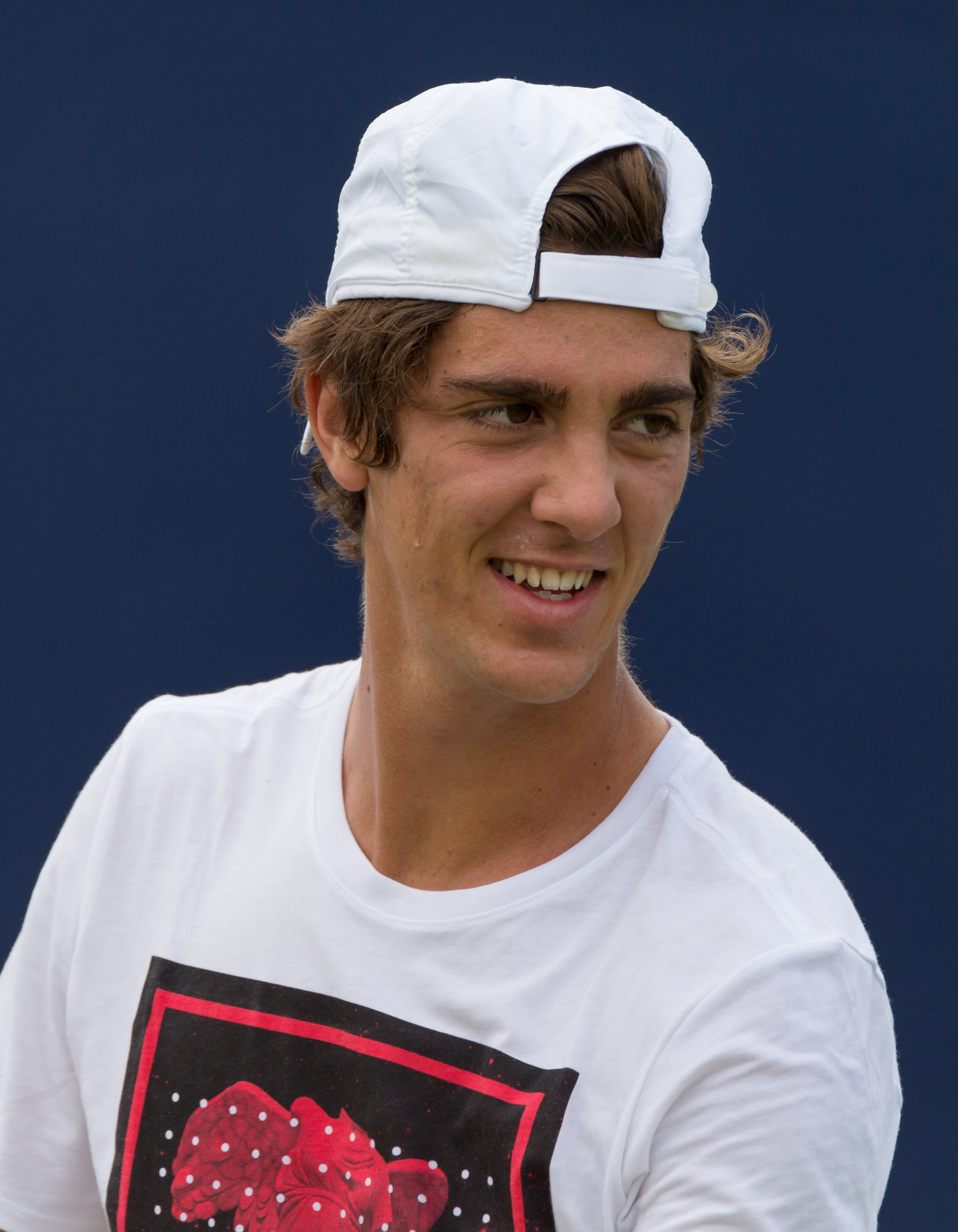 Thanasi Kokkinakis during practice at the Queens Club Aegon Championships in London, England.